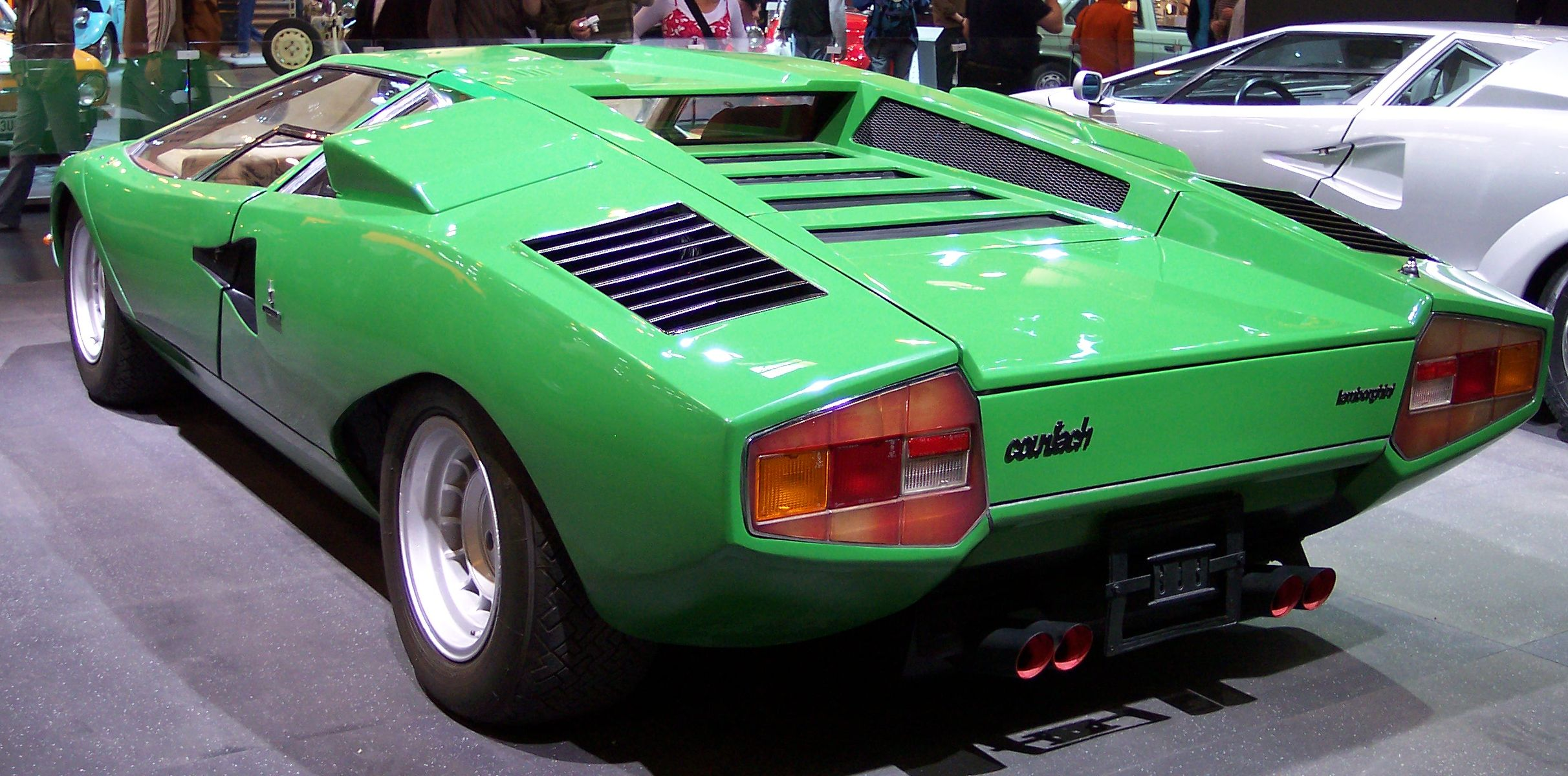 Lamborghini Countach